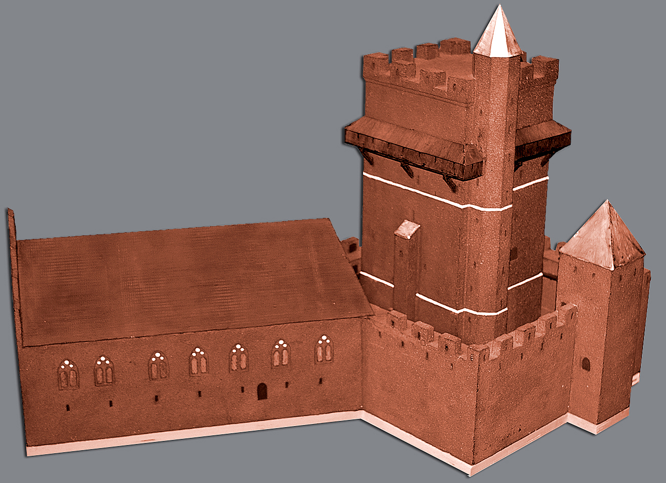 Reconstruction of the castel of Helsingborg, Sweden about 1315.